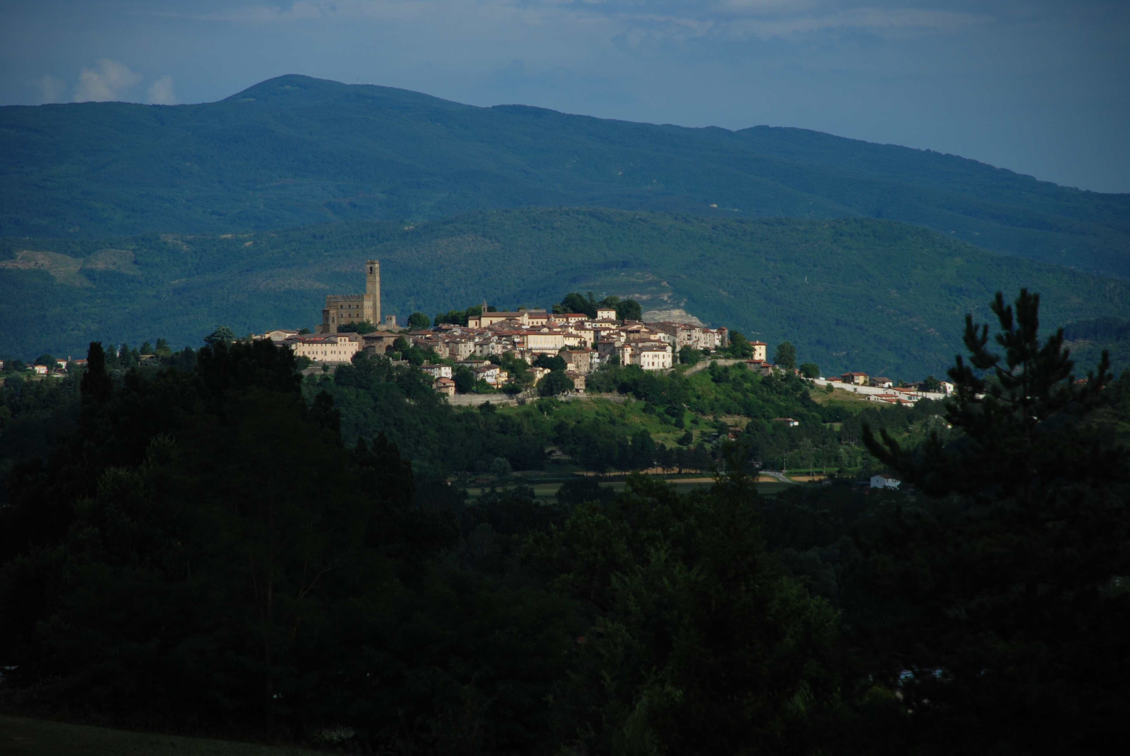 View of the hillside town of Poppi, Tuscany, Italy.